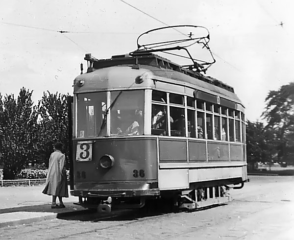 SAT AEG tram no. 36 in Turku, Finland